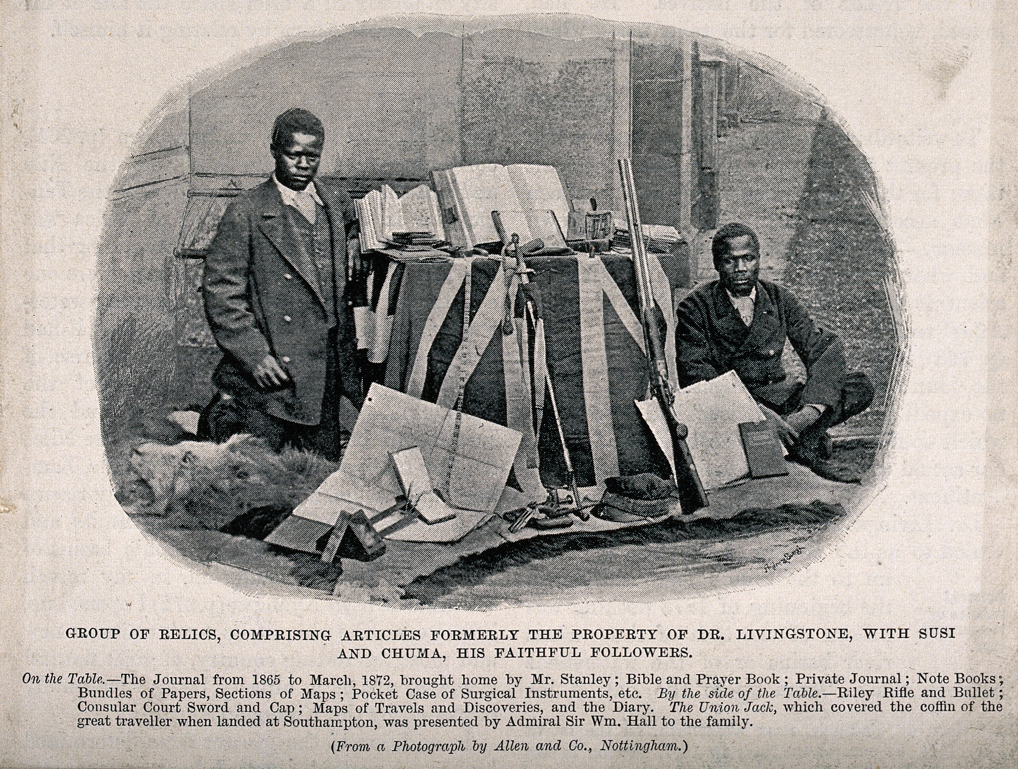 David Livingtone's followers, Susi and Chuma, pictured with his former possessions. Photograph, ca. 1873. Iconographic Collections Keywords: David Livingstone